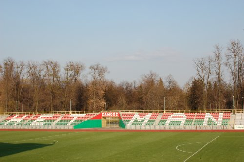 hwk